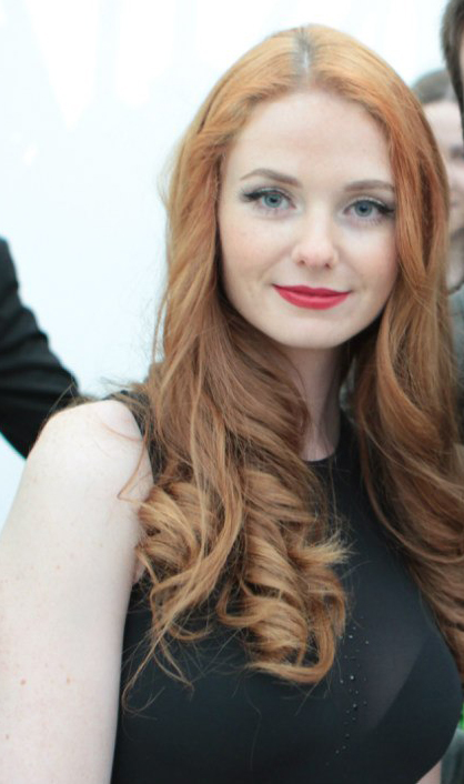 Lena Katina - April 2013